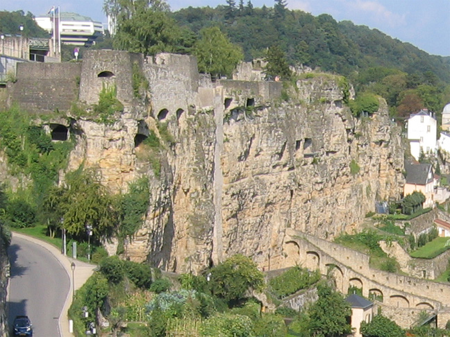 Photo of the Bock Fiels taken from the Corniche, European Parliament building visible in the background.